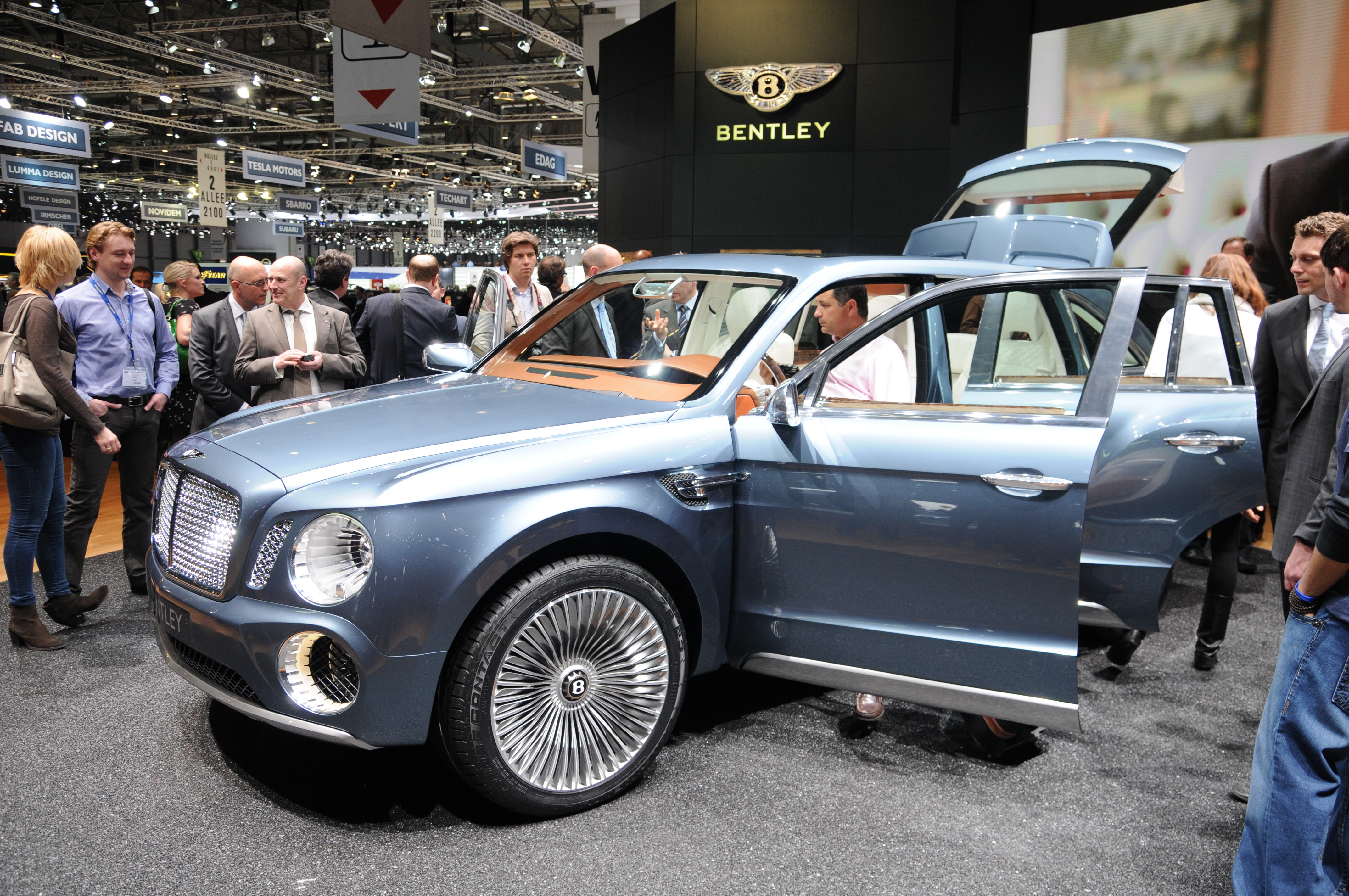 Geneva Motor Show 2012 (photos taken on the second press day)